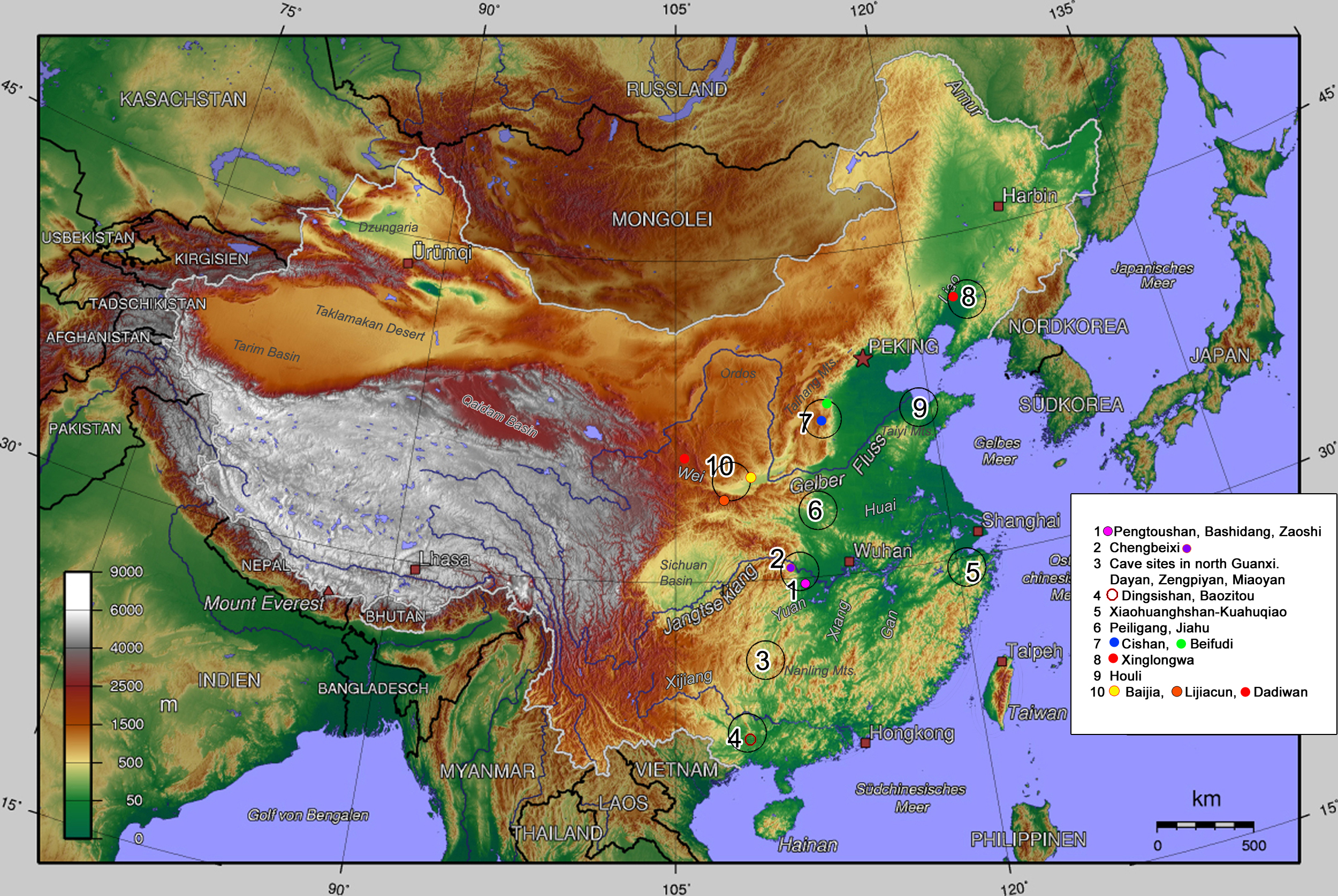 Map of the Neolithization and Early Neolithic cultures in China. Map built with the help of Li Liu and Xingcan Chen : The Archaeology of China : From the Late Paleolithic to the Early Bronze Age, Cambridge University Press 2012.